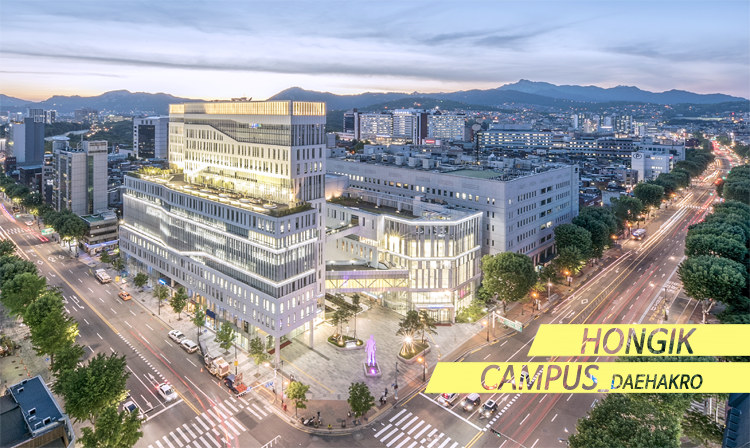 hongik univ